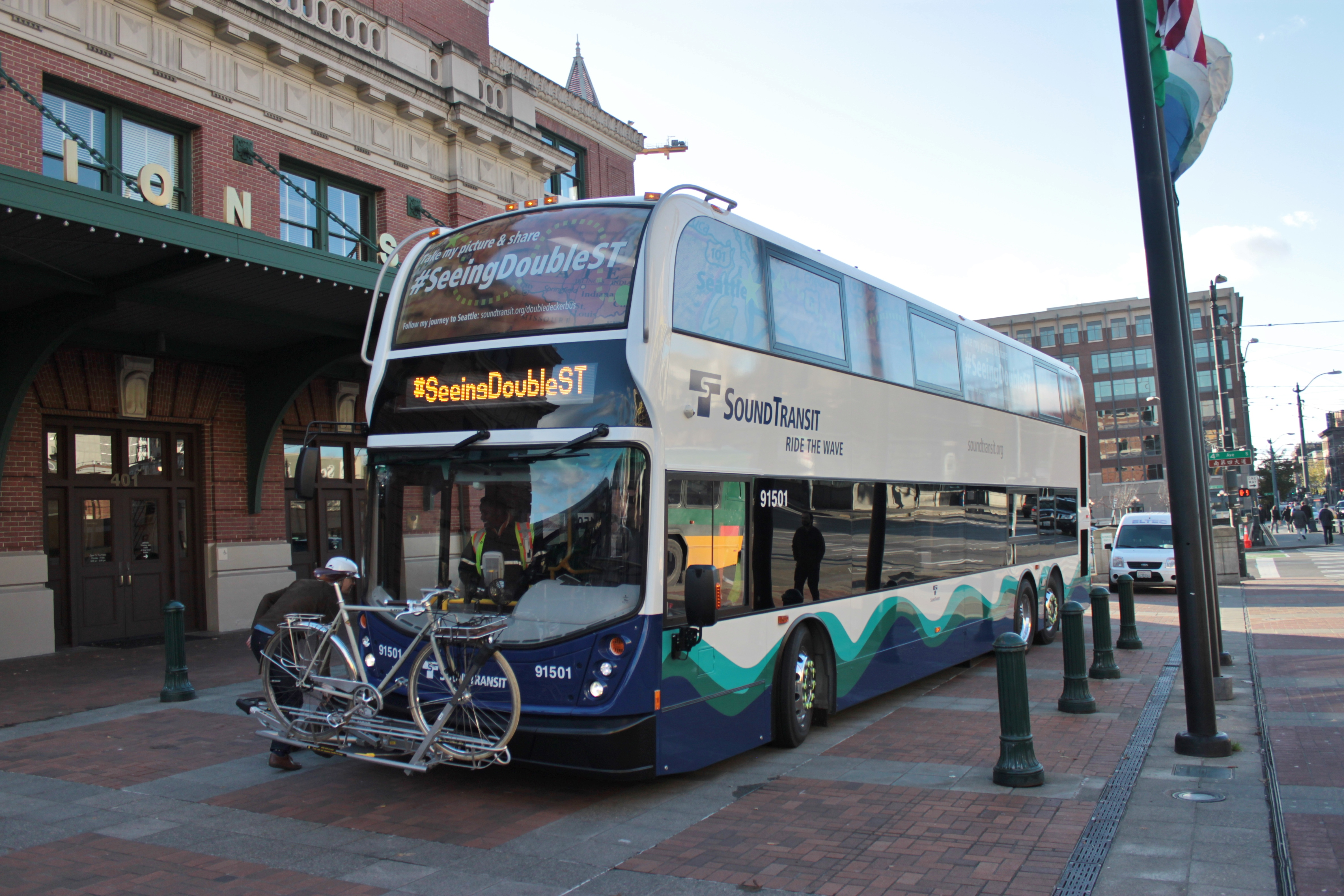 The first double-decker bus acquired by Sound Transit for its express bus service, on display at Union Station the day before it entered service on routes in Snohomish County. Model: 2015 Alexander Dennis Enviro500 MMC